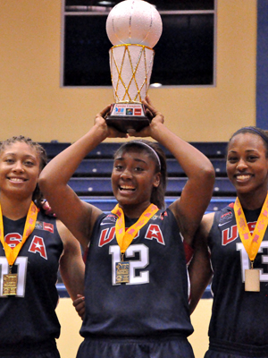 Morgan Tuck hoists the championship trophy at the award ceremonies, following the USA U18 gold medal game win over Brazil, in Gurabo, Puerto Rico on August 19, 2012